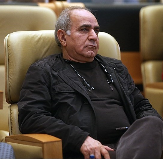 Parviz Parastuyi